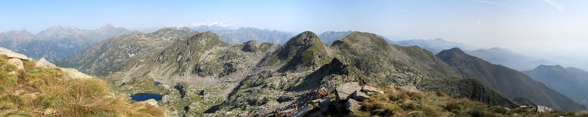 Panorama from monte Rosso towards Noth; in the foreground mounts Barma and Camino, in the background monte Rosa massif